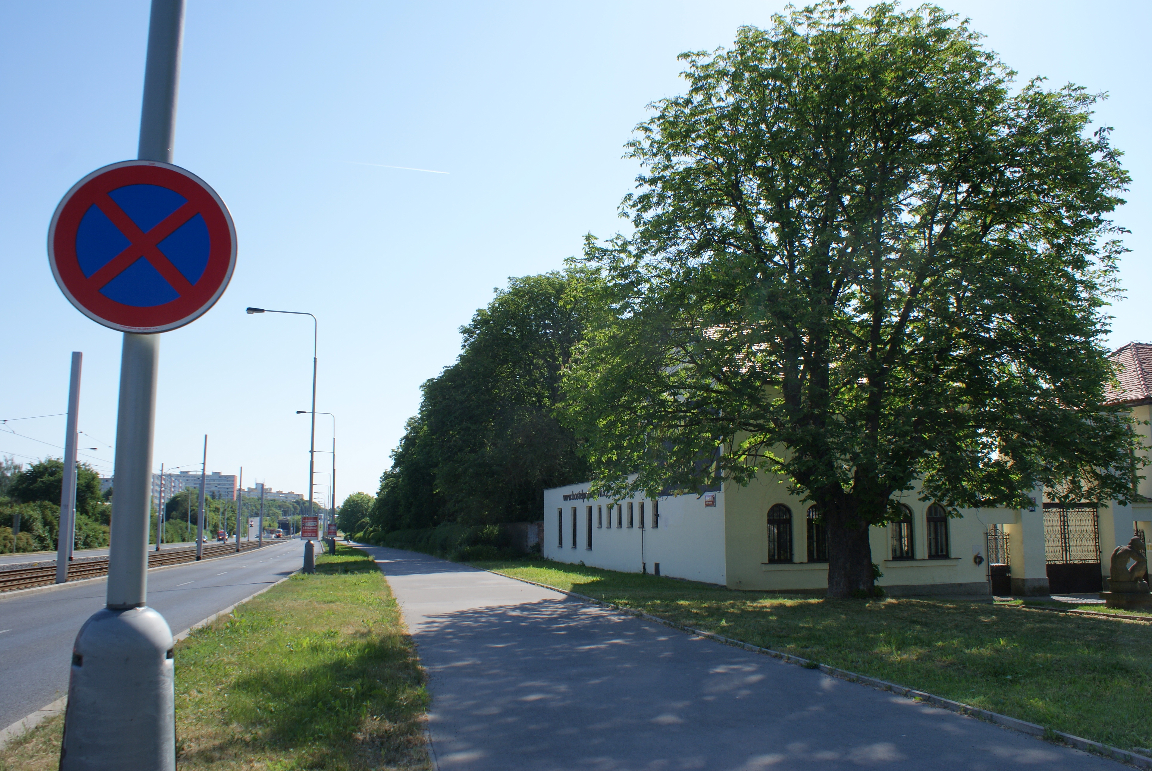 New Jewish cemetery in Prague Libeň, Czech Republic.